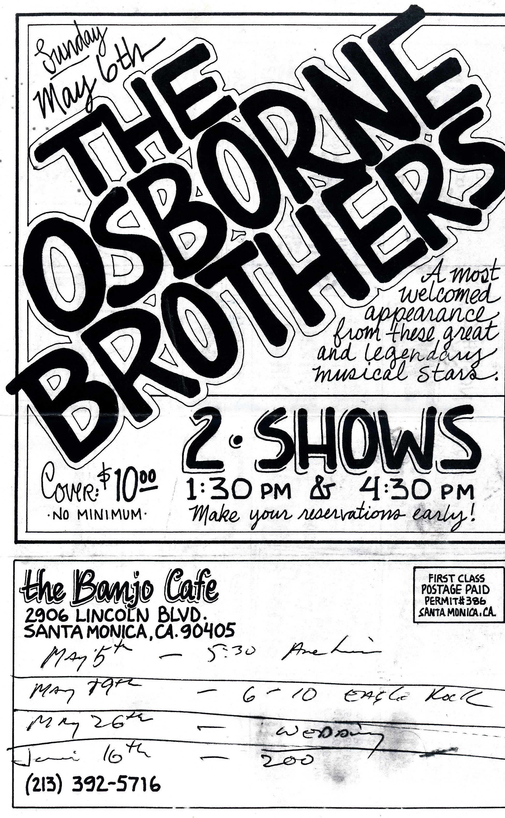 Bands from all over the country come to play during the final weeks of The Banjo Cafe: The Osborne Brothers, The Country Gazette, Berline-Hickman-Crary, Richard Greene, The Constables, Jody Stecher and Fred Sokolow.